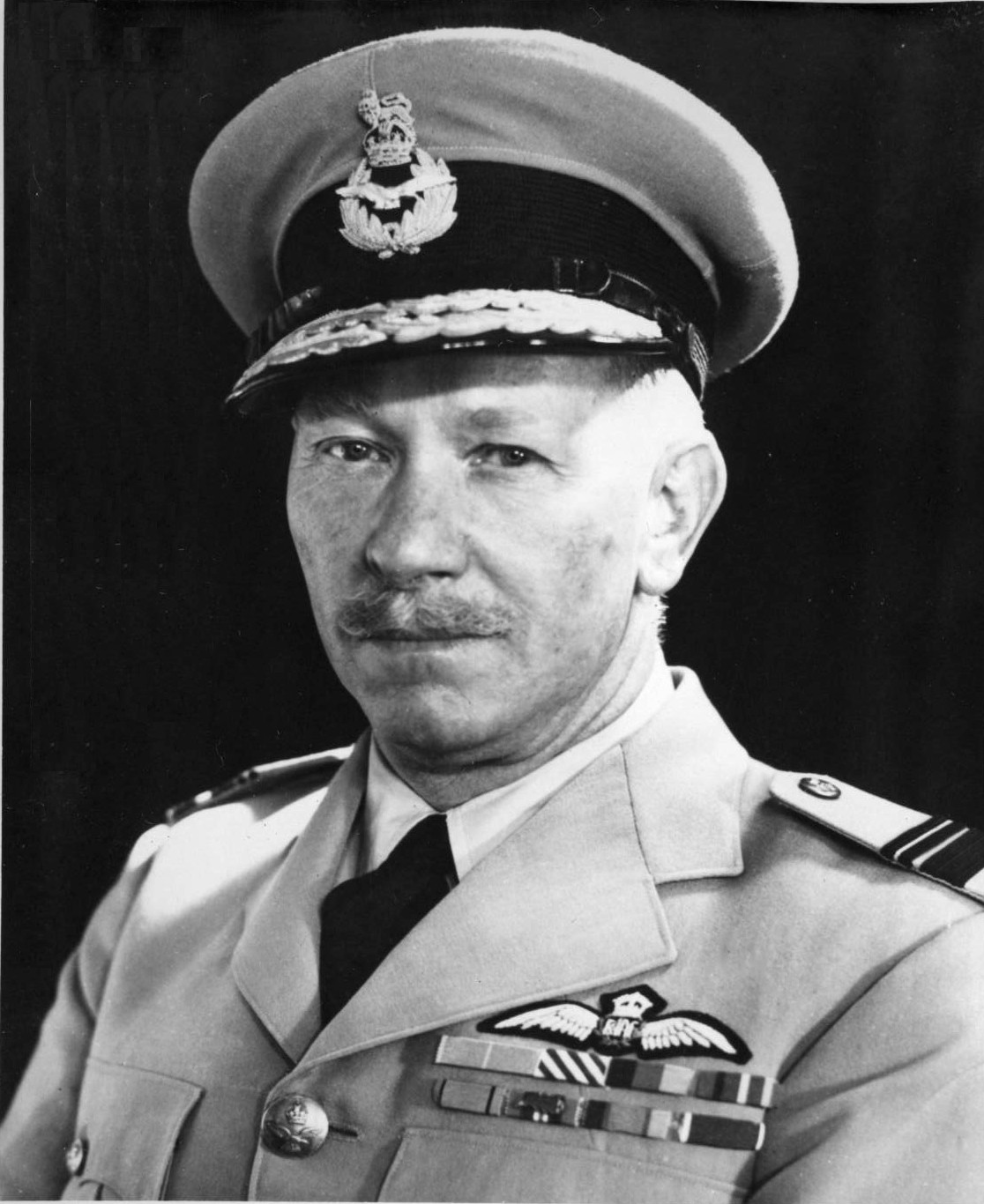 Air Vice Marshal Allan Walters CBE, AFC, Air Officer Commanding RAAF Home Command